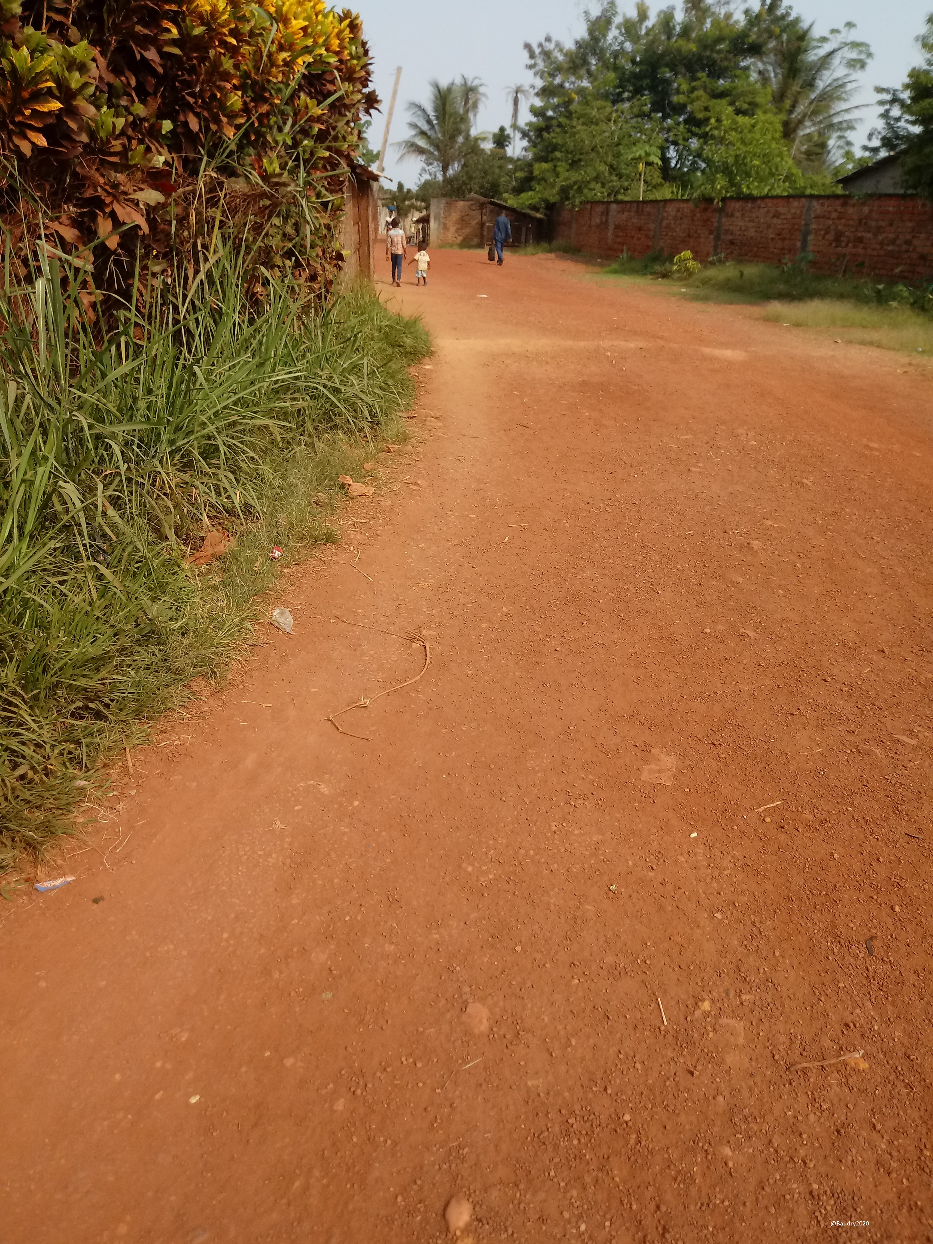 This is an image with the theme "Africa on the Move or Transport" from: Democratic Republic of the Congo